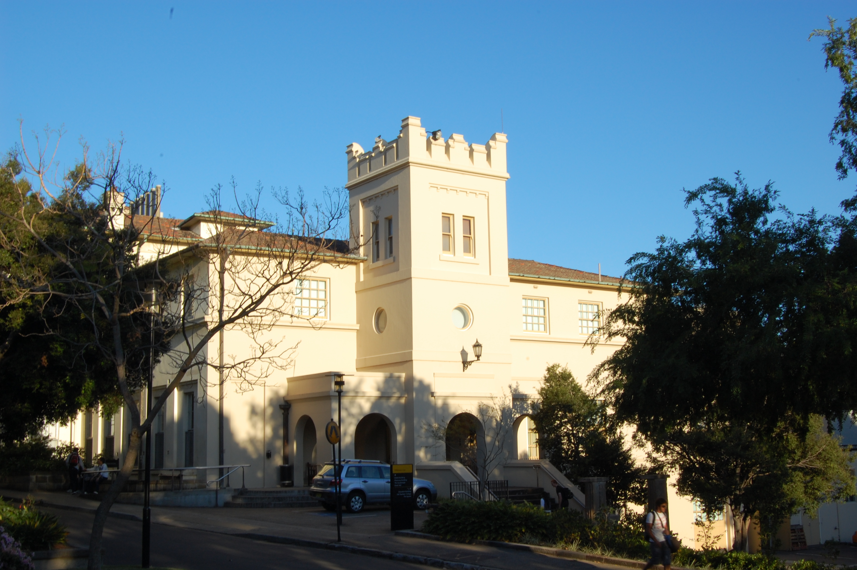 Badham Library, University of Sydney, 2009